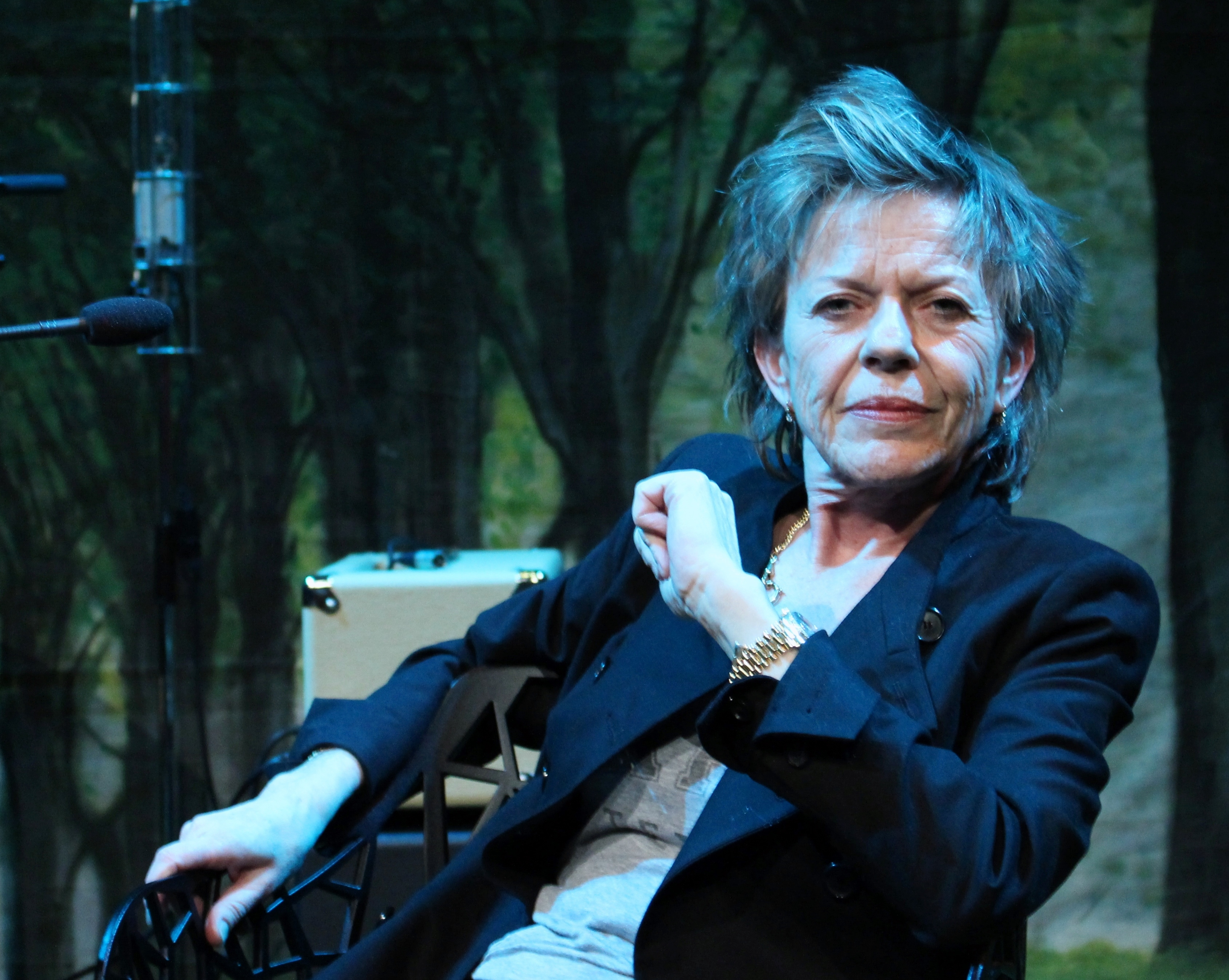 Connie Palmer at Writers Unlimited 2014, the international writers festival in The Hague